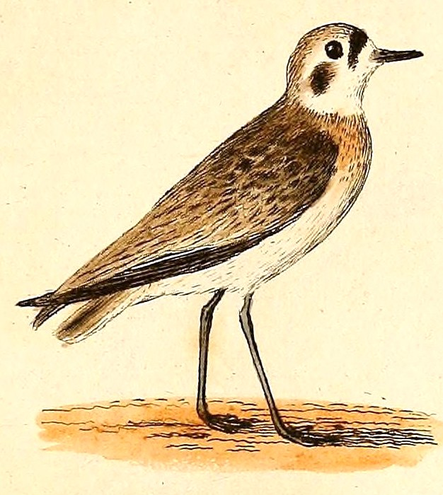 « Charadrius pecuarius » = Charadrius pecuarius (Kittlitz's Plover)